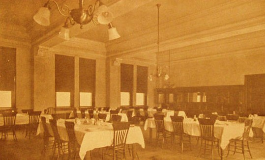 Hays Hall at Washington & Jefferson.